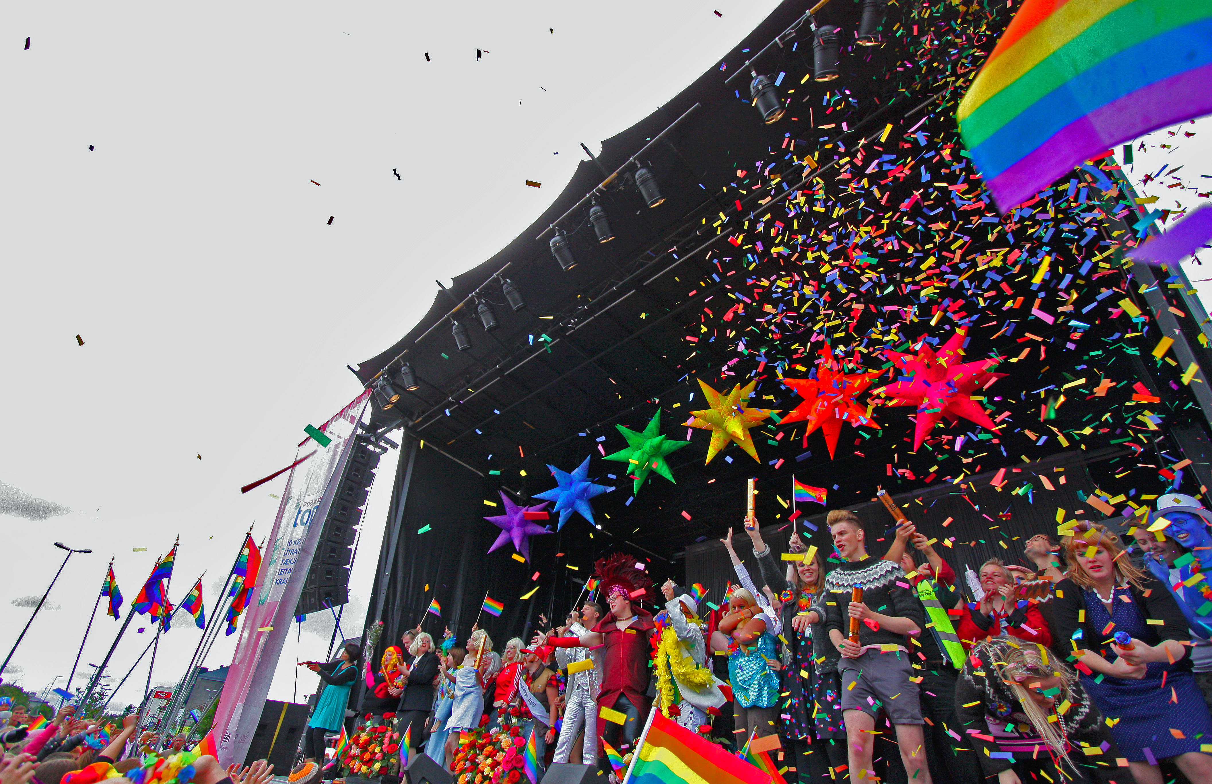 Once again Reykjavik Gay Pride managed to be the most succsesful ever in it's history. Around 80 - 90 thousand people came to the city center for the parade and the outdoor concert.